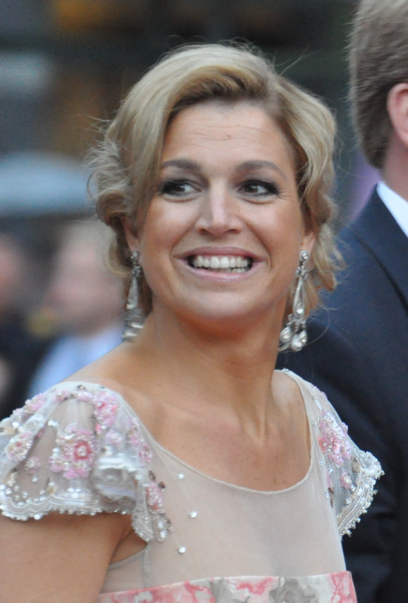 Wedding of Victoria, Crown Princess of Sweden, and Daniel Westling; Arrival of members for the Gouvernment and Swedish and foreign guests of hounour to the Riksdag's Gala Performance at Konserthuset: Princess Máxima of the Netherlands